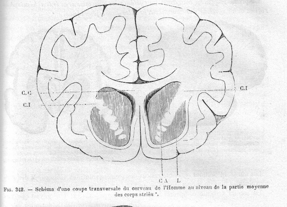 The human corpus striatum.